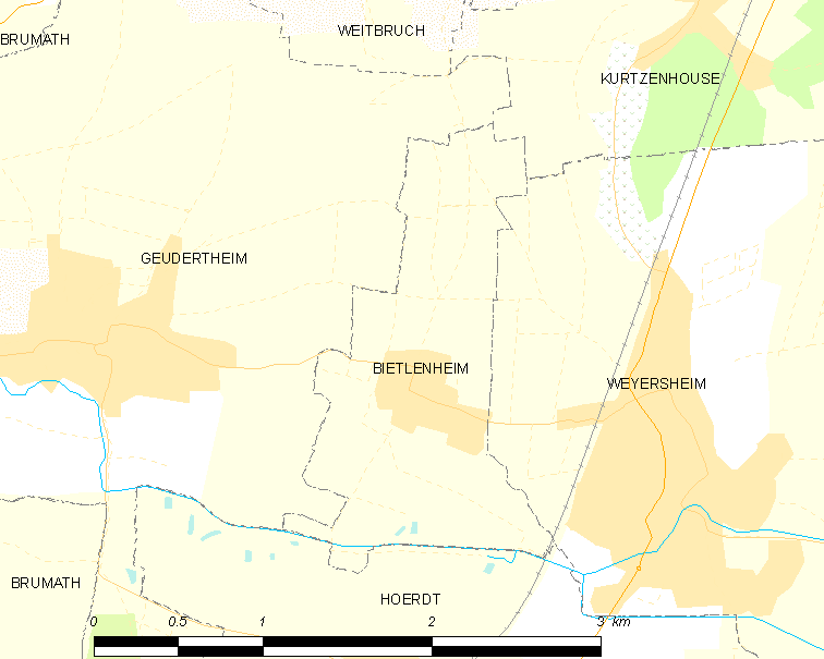 Map of French municipality